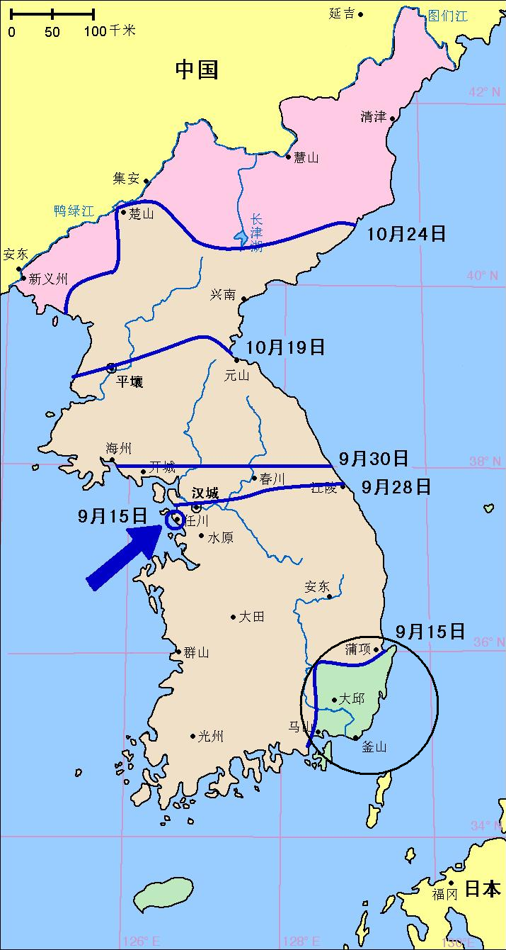 Korean war defense circle (S.K.)